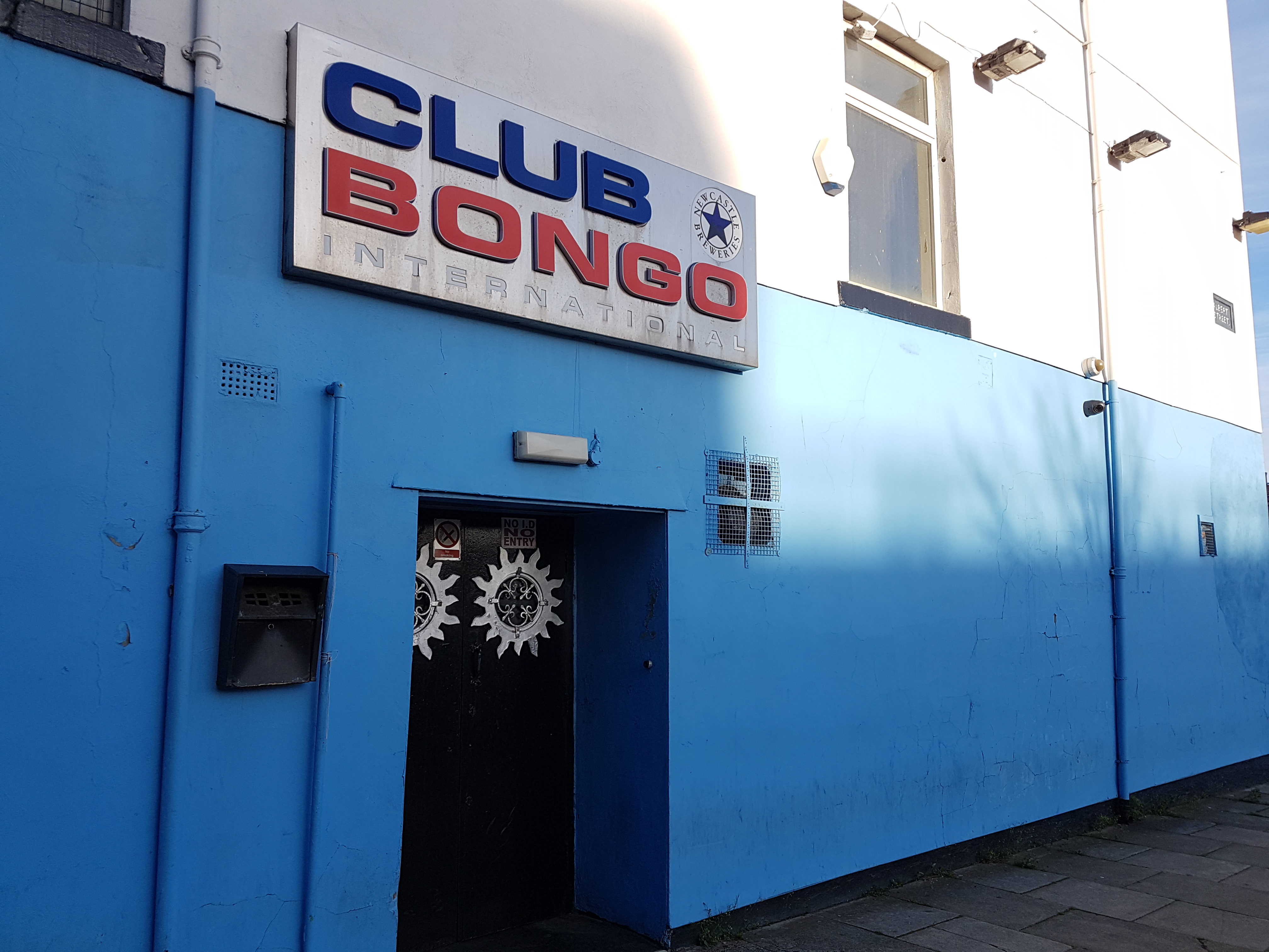 Bongo Club - Albert Street entrance, Middlesbrough